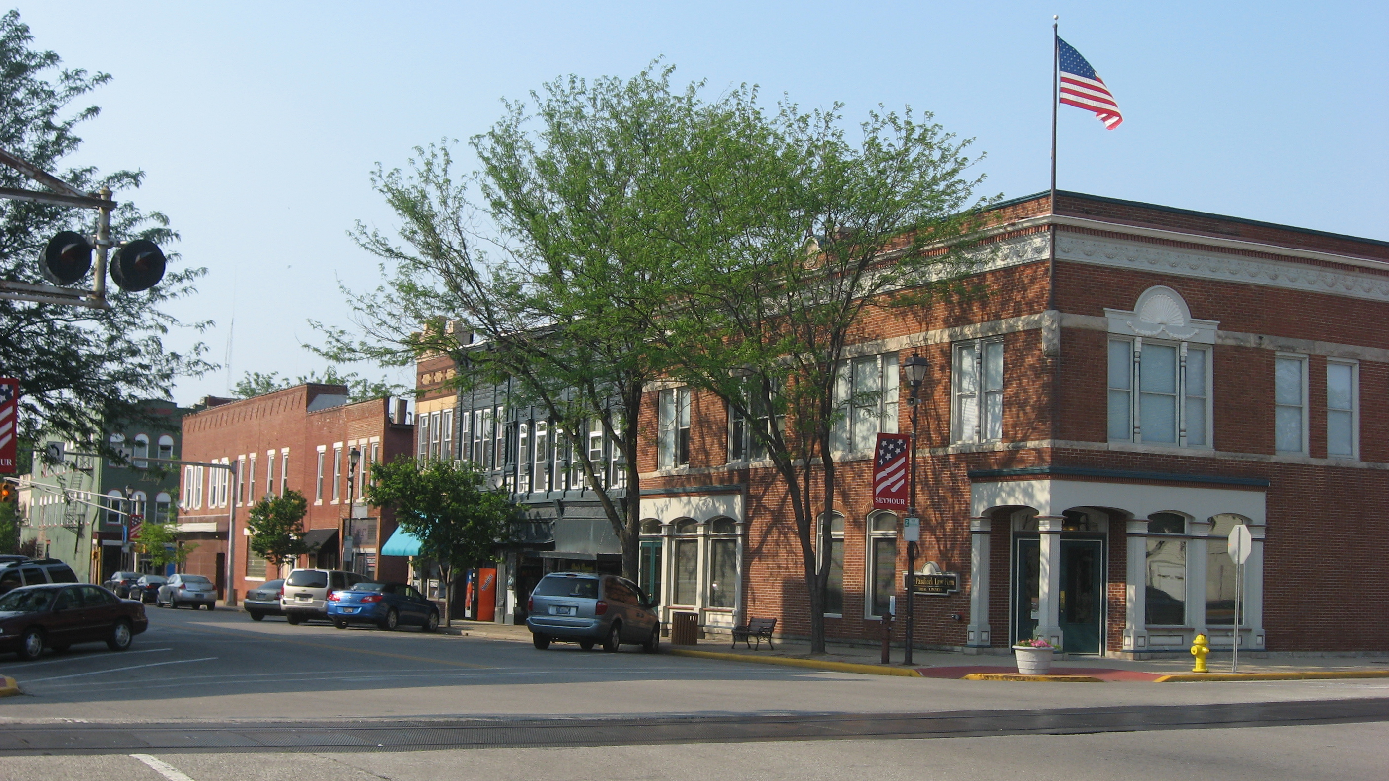 Buildings on the northeastern corner of the intersection of St. Louis Avenue and Chestnut Street in downtown Seymour, Indiana, United States. This block is part of the Seymour Commercial Historic District, a historic district that is listed on the National Register of Historic Places.